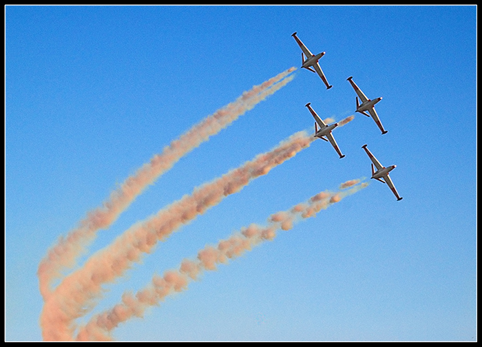 IAF aerobatics team on Tzukit aircraft